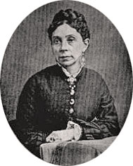 Annie Sherwood Hawks (May 28, 1836 - January 3, 1918) was an American poet and hymnist who wrote a number of hymns with her pastor, Robert Lowry. Guess date at 1900